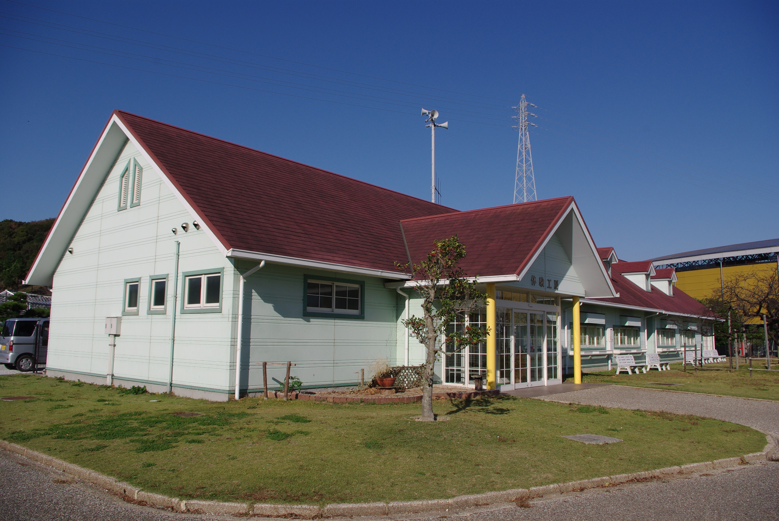 "Taiken Kobo" (English:Experience Workshop) in Santé Parc Tahara